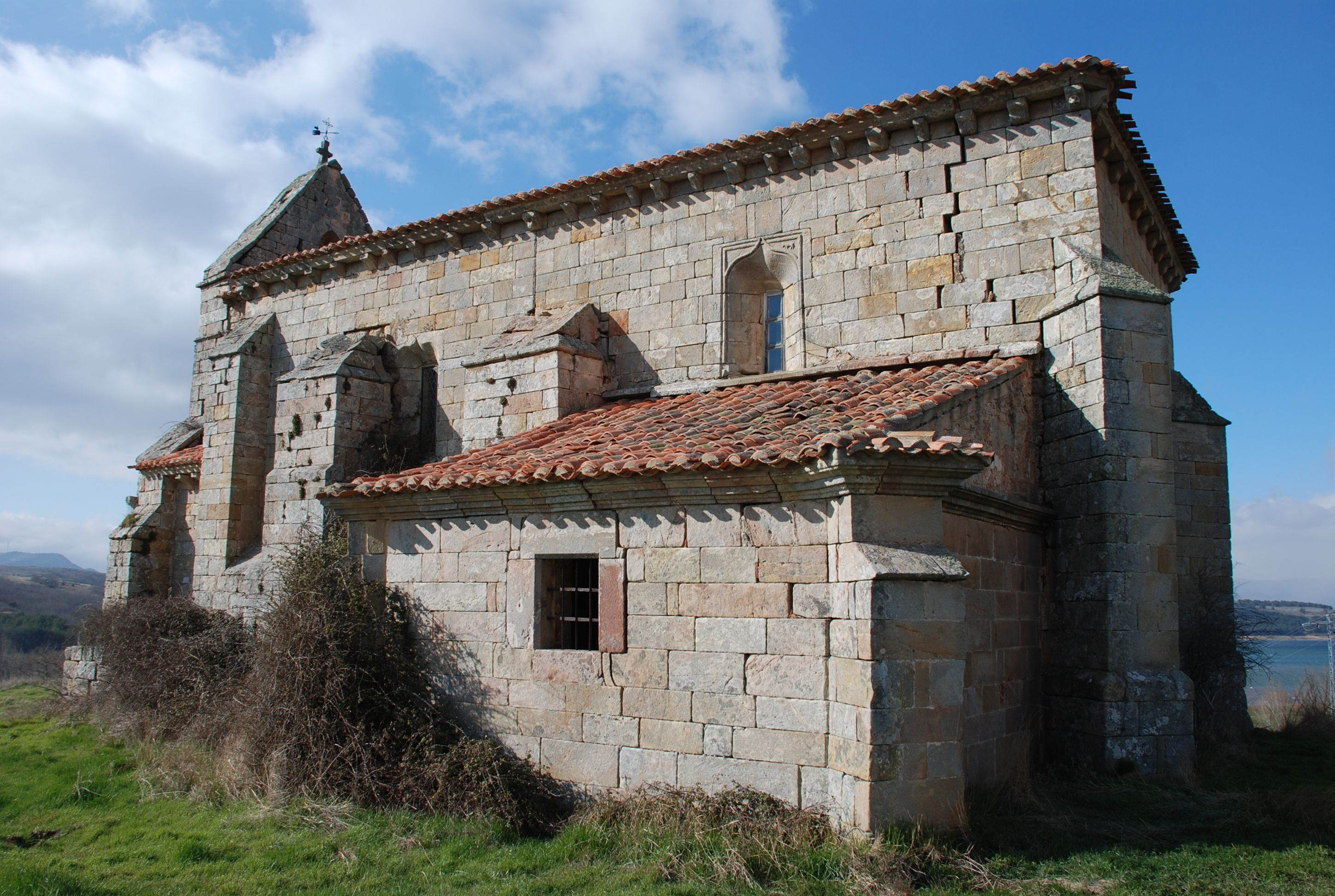 Church of Saint Martin, Quintanilla de la Berzosa (Palencia, Castile and León).